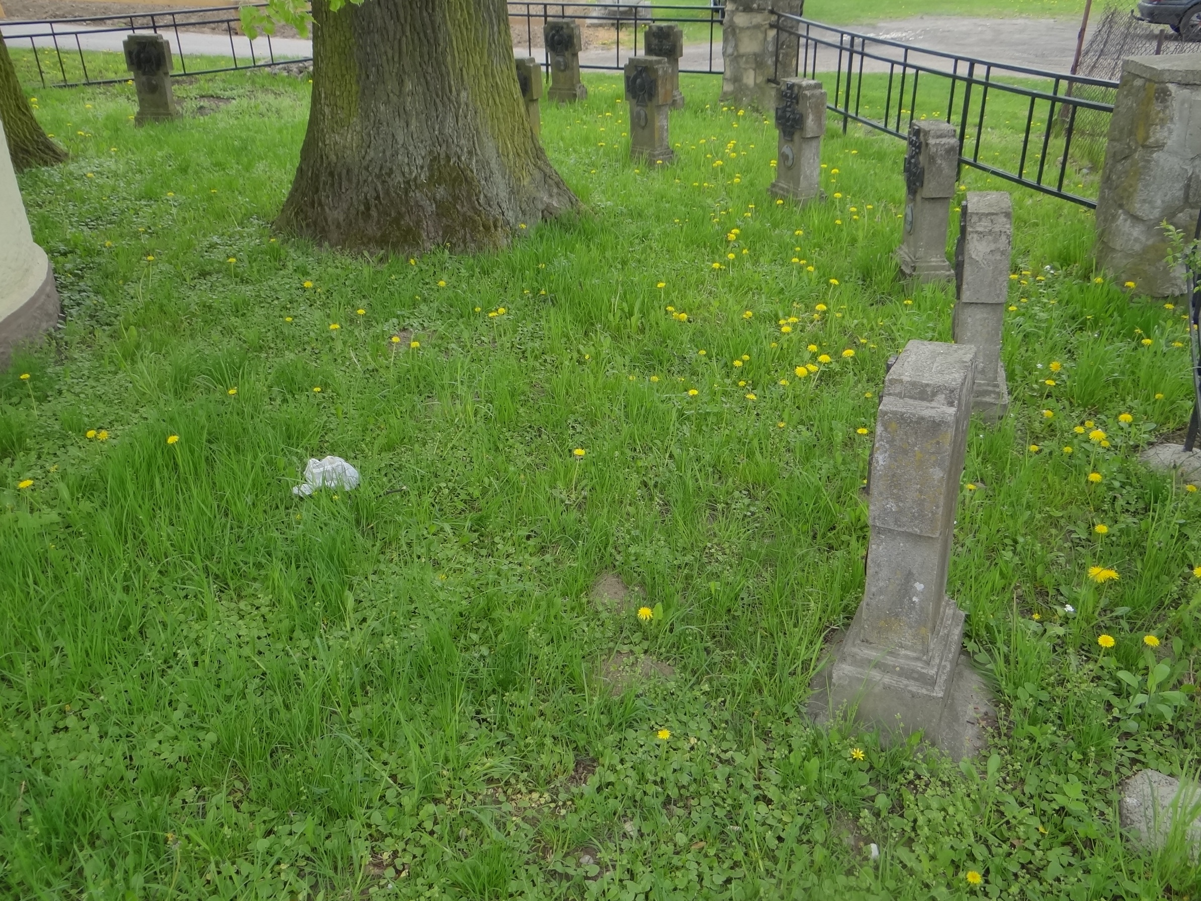 World War I Cemetery nr 157 in Dąbrówka Tuchowska